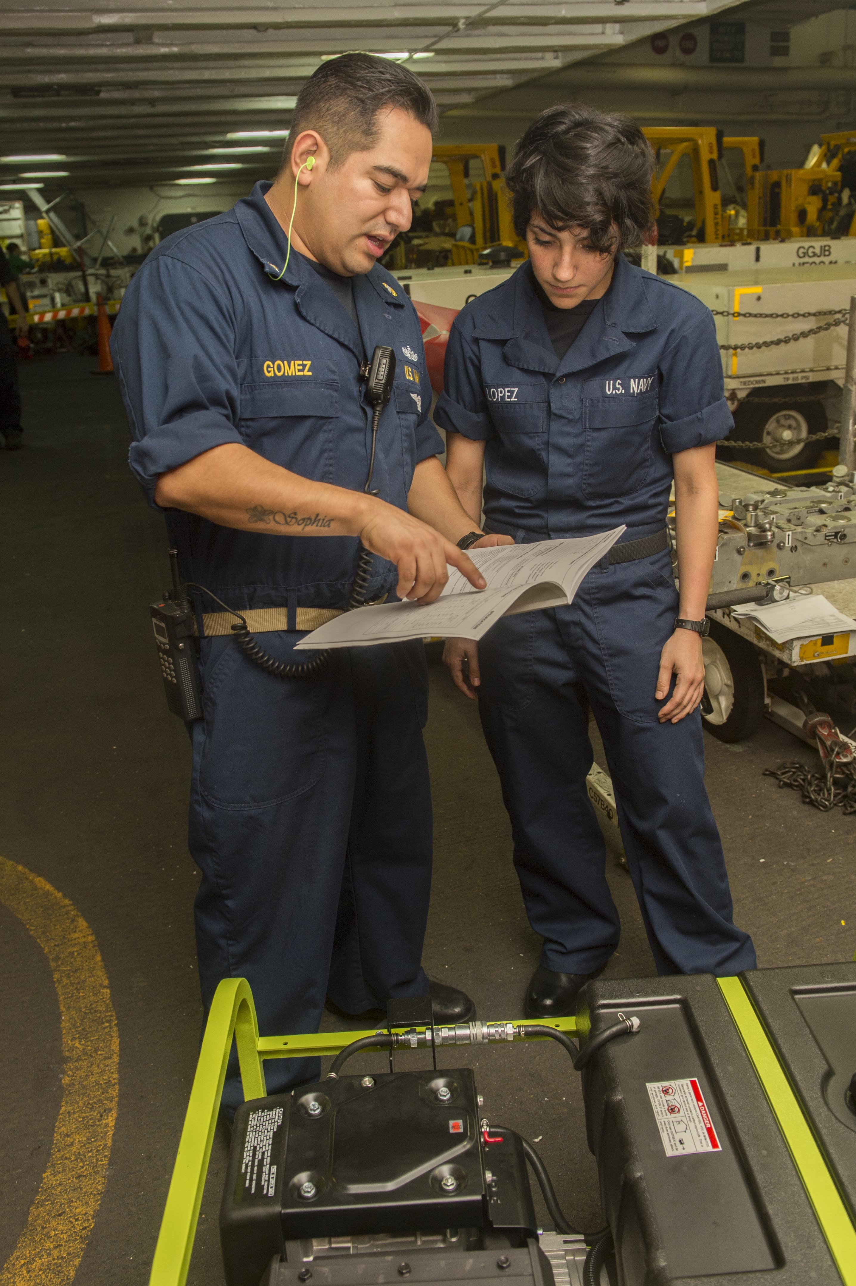 131210-N-CE241-025 GULF OF OMAN (Dec. 10, 2013) Chief Damage Controlman Cesar Gomez, of Chicago, left, explains damage control generator maintenance procedures to Damage Controlman Fireman Angel Lopez, of Houston, in the hangar bay of the aircraft carrier USS Harry S. Truman (CVN 75). Harry S. Truman, flagship for the Harry S. Truman Carrier Strike Group, is deployed to the U.S. 5th Fleet area of responsibility conducting maritime security operations, supporting theater security cooperation efforts and supporting Operation Enduring Freedom. (U.S. Navy photo by Mass Communication Specialist 3rd Class Laura Hoover/Released).